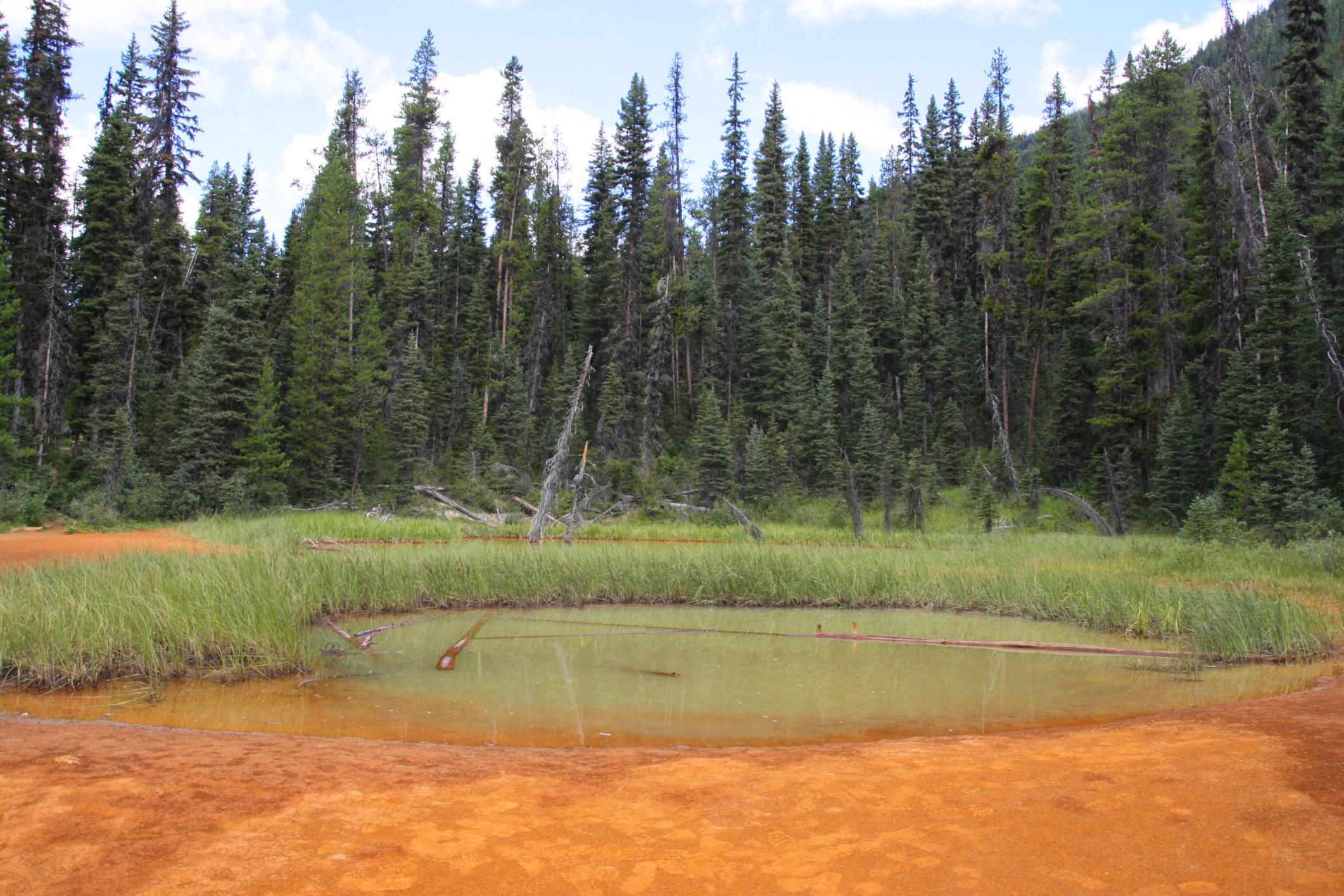 Paint Pots - iron rich mineral springs in Kootenay National Park, British Columbia, Canada.